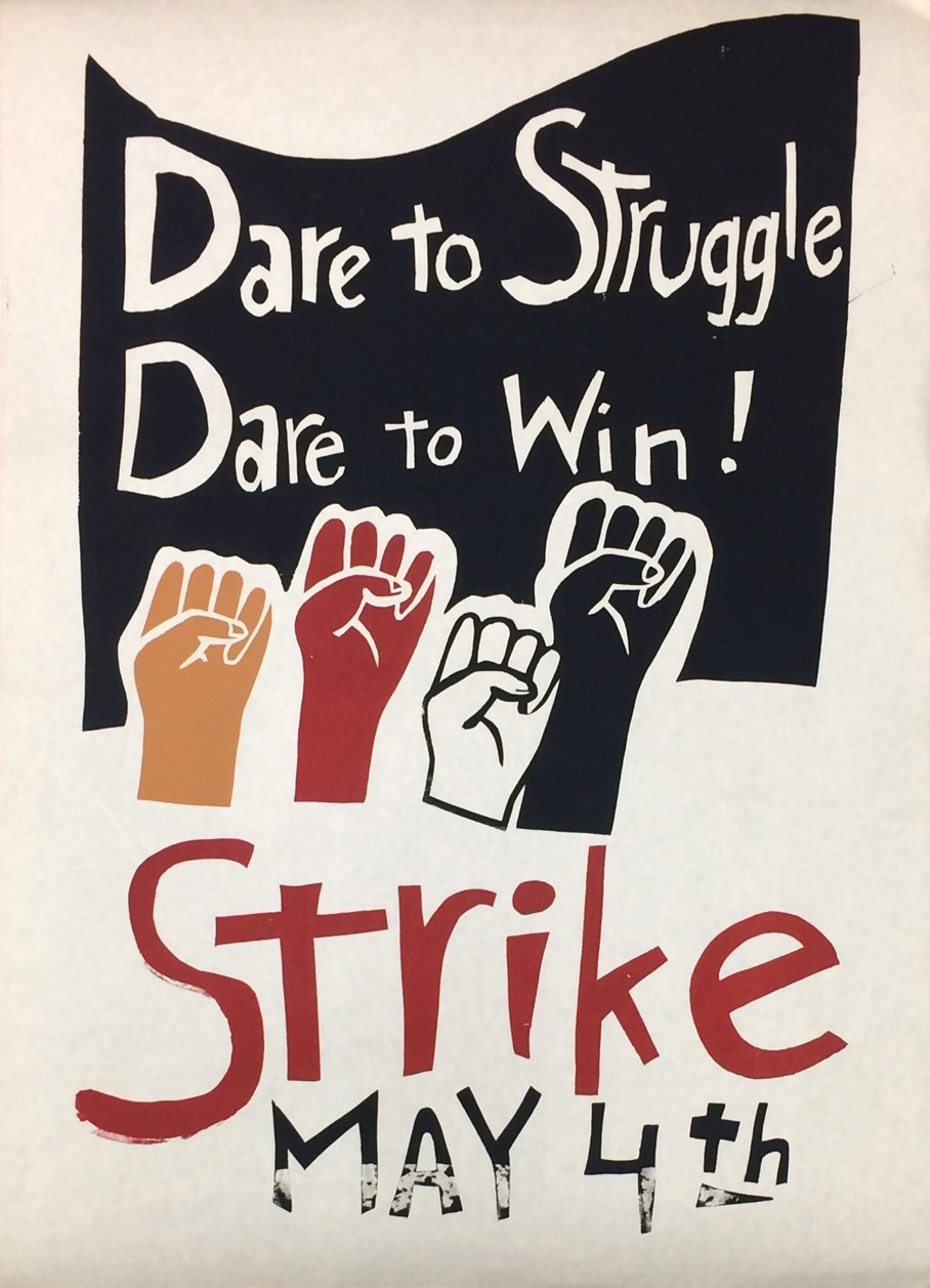 18 x 25.5 inch screenprint poster, which says "Dare to Struggle, Dare to Win! Strike May 4th". On May 4, 1970, students across the United States protested in response to Nixon's bombing of Cambodia. The most infamous of these protests was at Kent State University where four students were shot and killed.